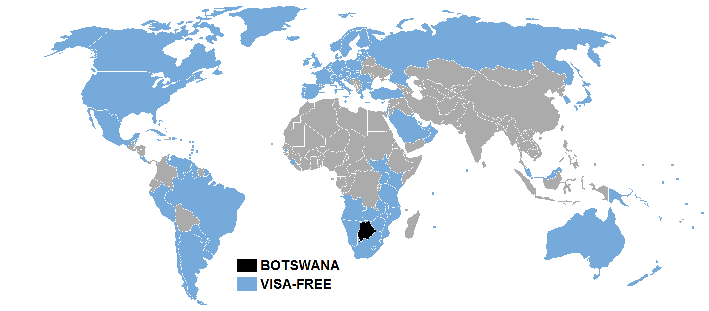 Visa policy of Botswana Botswana Visa-free Visa on arrival